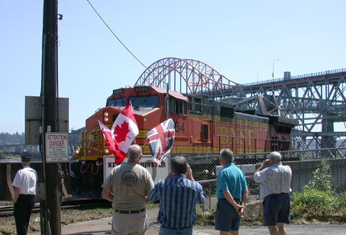 New Westminster Bridge.